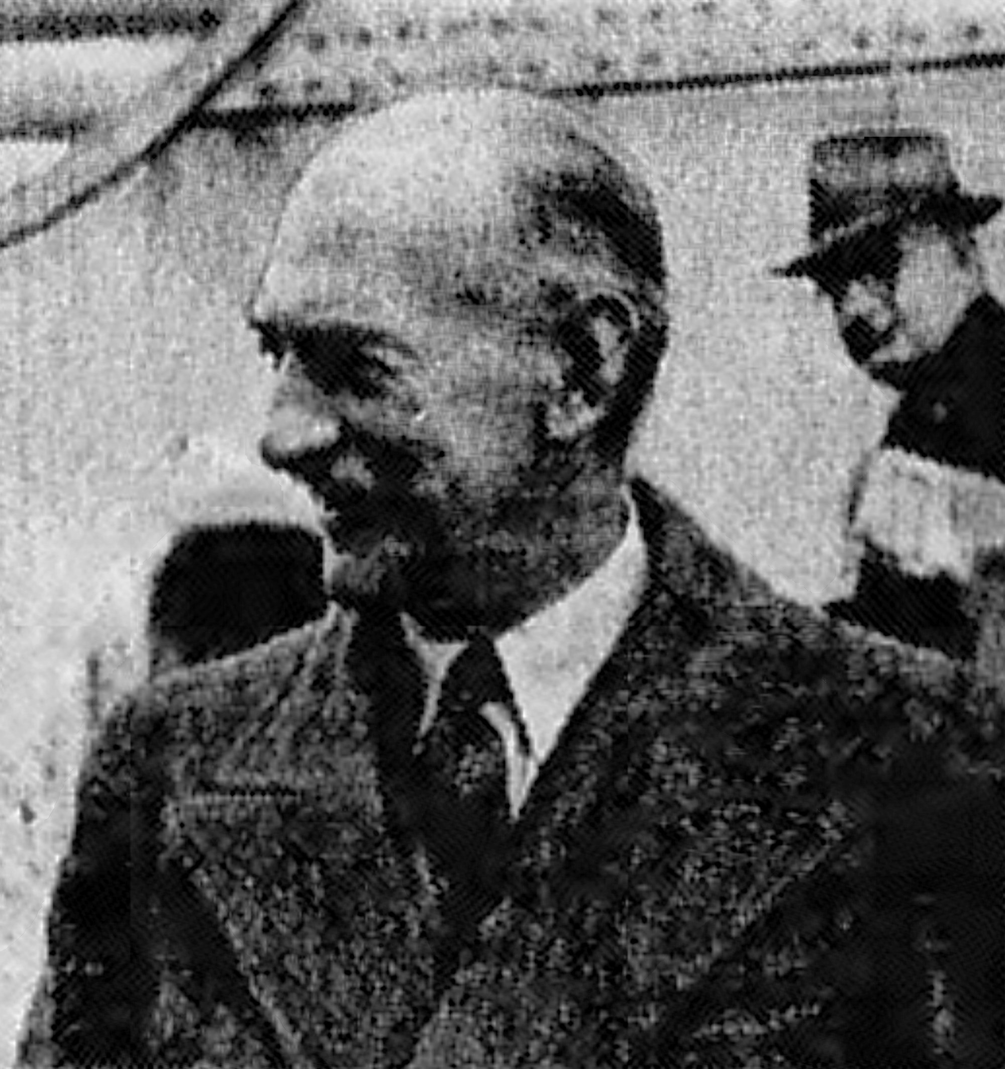 E. T. R. Wickham, photographed while leading a parliamentary delegation to Australia in 1944.